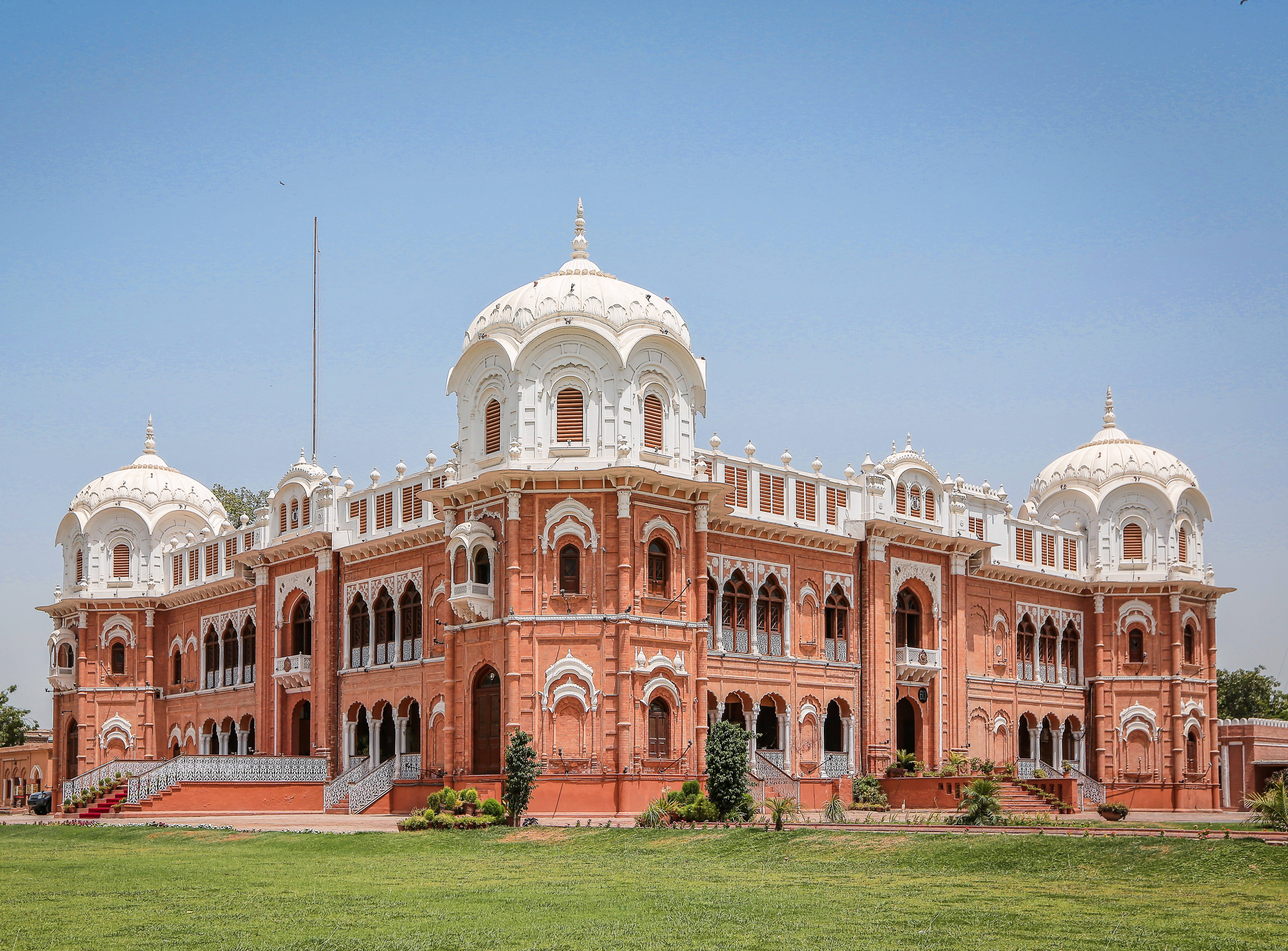 Darbar Mahal was commissioned by Nawab Bahal Khan (V) in 1904, and was one of its kinds among other forts that had been built around that time. Originally conceived as the “Bhawal Gerh”; the fort was completed in 1905 and was dedicated to one of the wives of the Nawab. The Mahal was eventually given into the services of the Pakistan Armed Forces and government offices after the Pakistani War of Independence in 1947, and the tenants paid due dividends to the Nawab. The Mahal has also served as the sitting bench for regional court of the State of Bahawalpur and during the last 2 decades has been reserved exclusively to serve the Pakistan Army. This is a photo of a monument in Pakistan identified as the PB-105